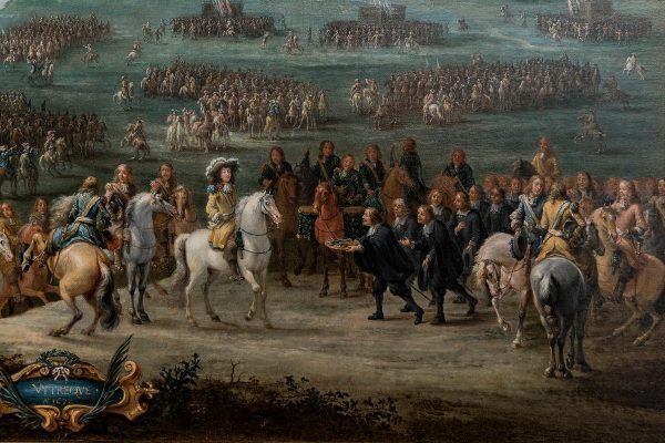 Lambert de Hondt (II): The surrender of the city of Utrecht on June 30, 1672 to king Louis XIV of France, 1672. Centraal Museum Utrecht, detail. Oil on canvas. King Louis XIV of France is presented with the city keys.